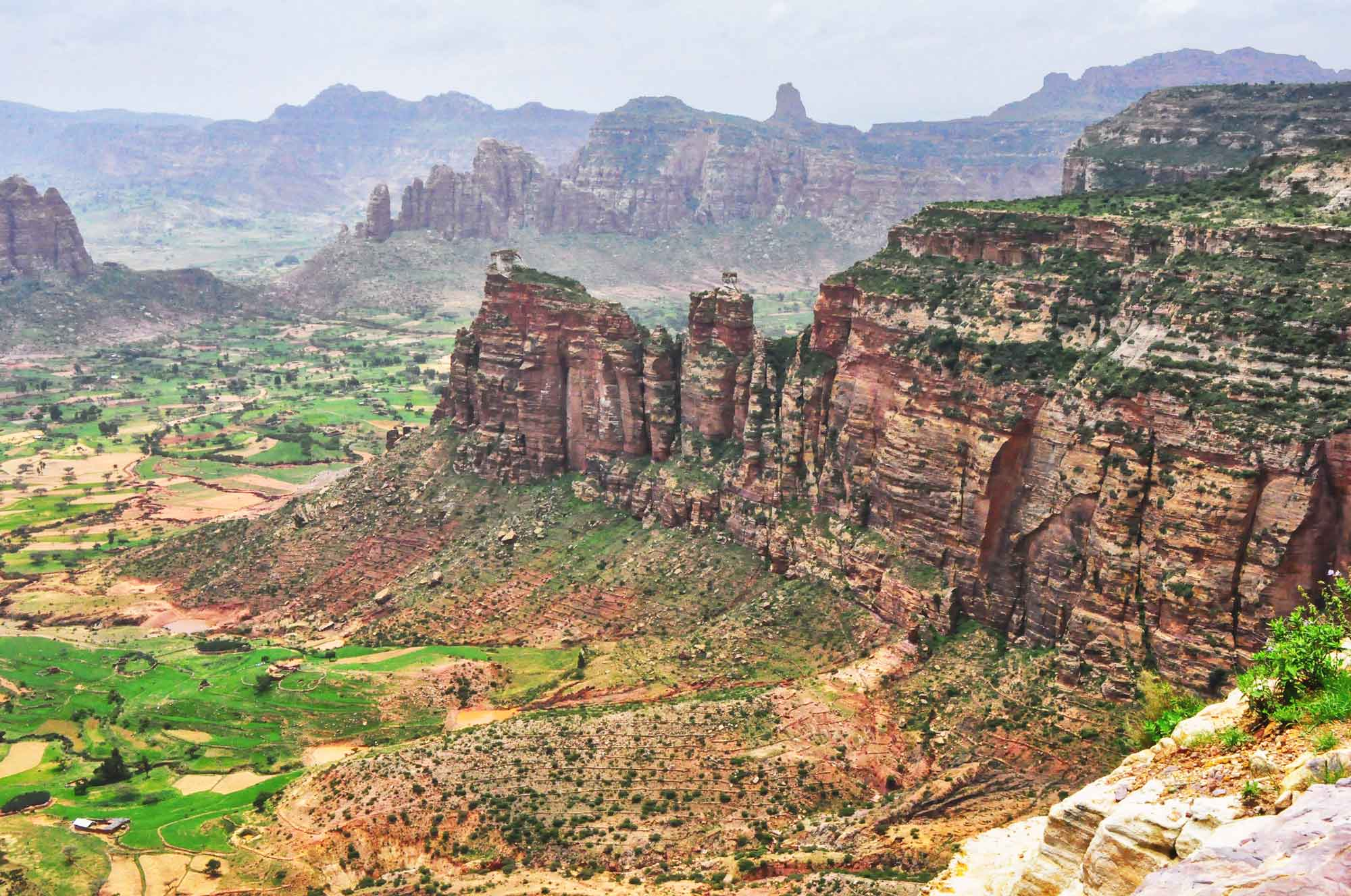 Rock hewn churches are hidden away and difficult to reach at the top of this huge area of mtn.